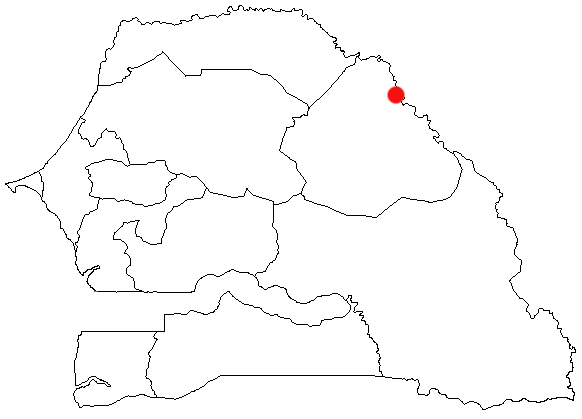 Matam, Senegal Location Map; created with the GIMP. Made by User:Acntx.